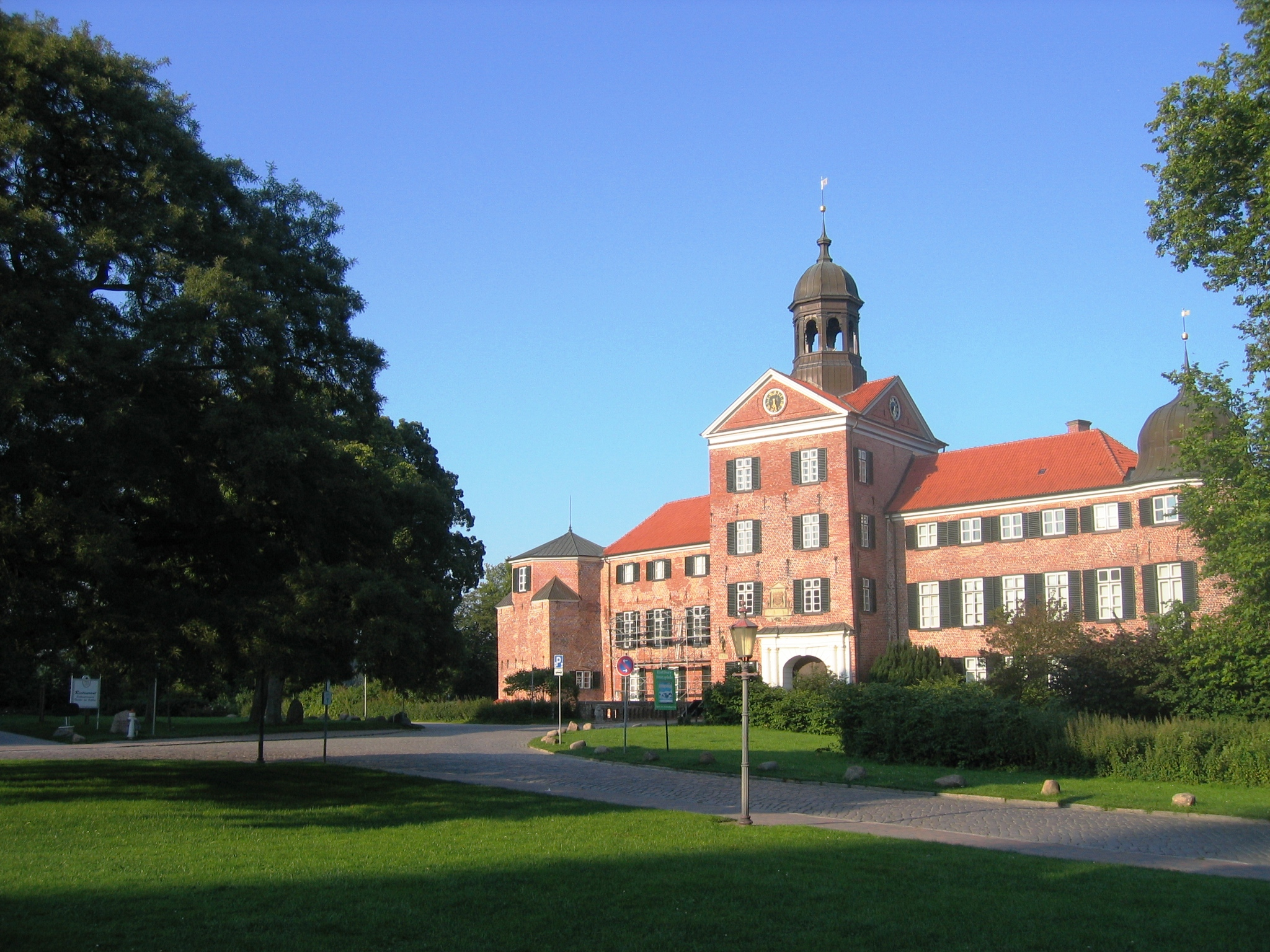 Eutin Castle